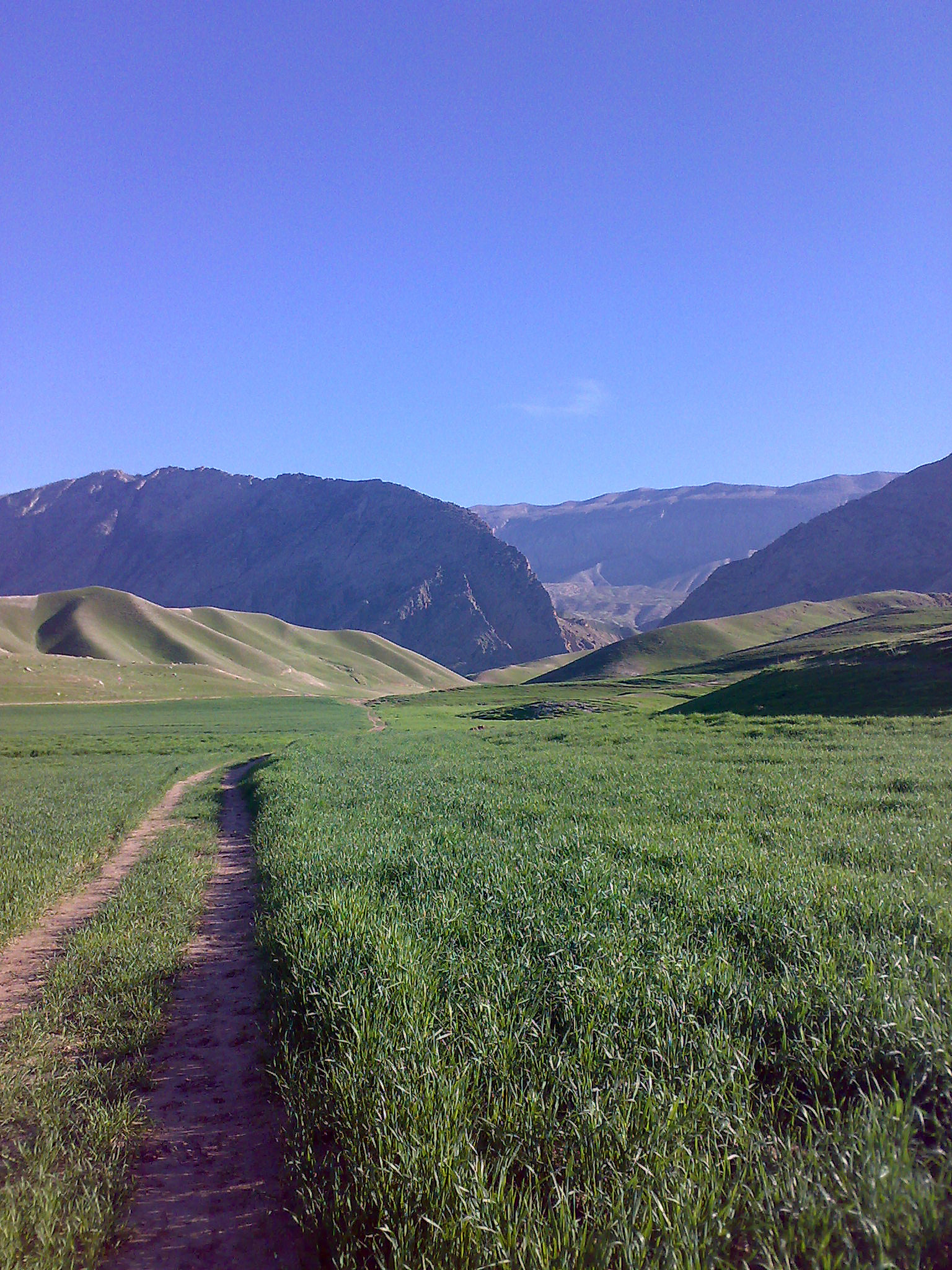 Wheat fields near Sheikh Makan Village, Darreh Shahr. The Kabir Kooh (Kabir Kuh) ranges can be seen in the picture.